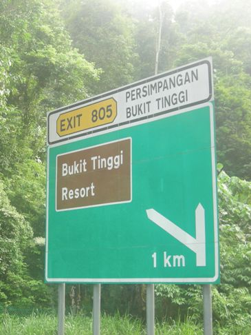 Bukit Tinggi exit sign.